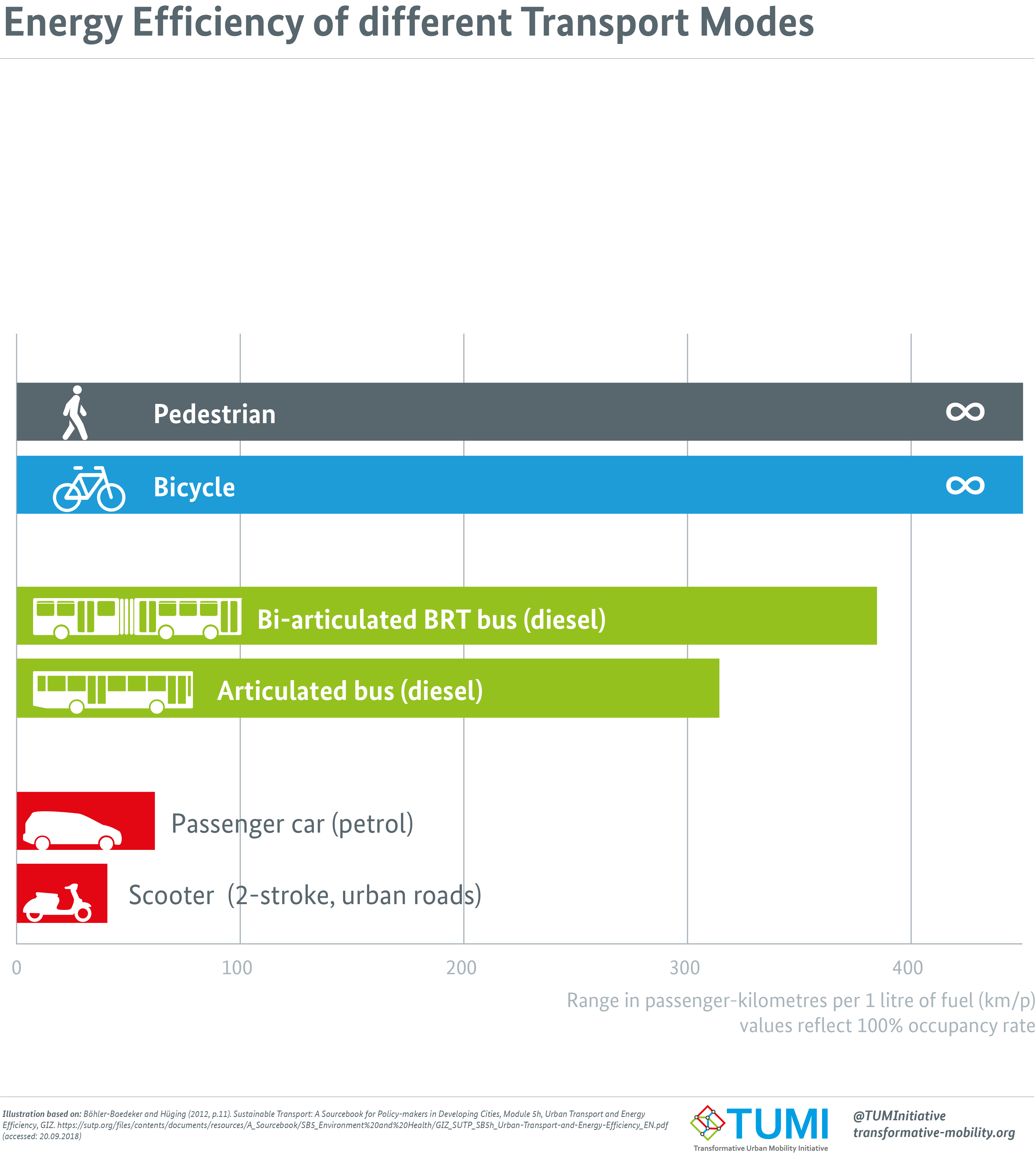 Energy Efficiency of different Transport Modes Range in passenger-kilometres per 1 litre of fuel (km/p), values reflect 100% occupancy rate Pedestrian Bicycle Bi-articulated BRT bus (diesel) Articulated bus (diesel) Passenger car (petrol) Scooter (2-stroke, urban roads) Transformative Urban Mobility Initiative (TUMI)